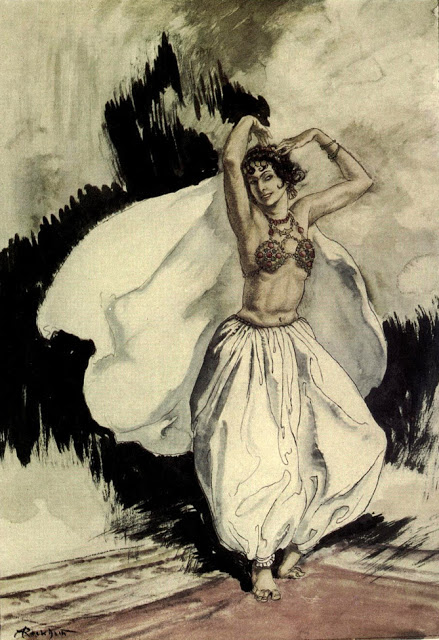 From a 1936 edition of the play Peer Gynt by Henrik Ibsen, illustrated by Arthur Rackham.